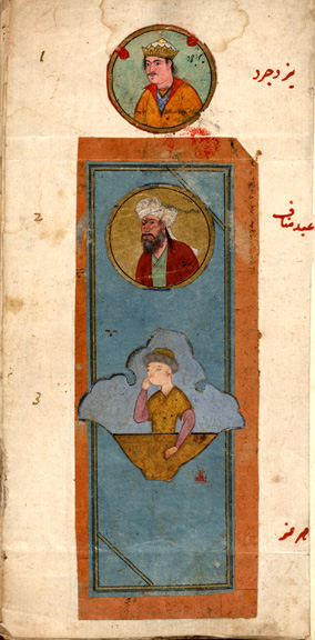 Persian kings etc. 1. Yezdegerd. Name of 3 Sasanid kings. 2. Abd Manaf of Qurayshi tribe, Muhammad's great-grandfather. 3. Hormoz. Name of 5 Sasanid kings.